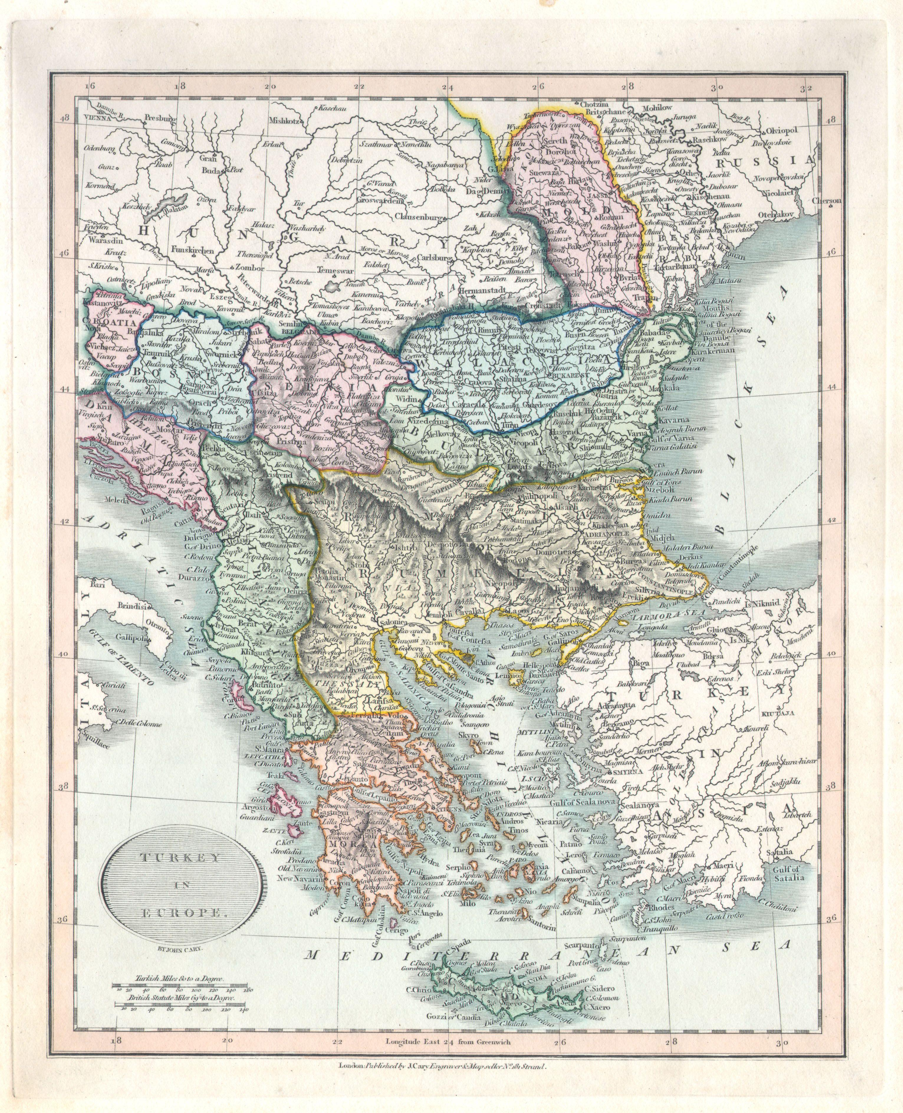 This is a hand colored 1836 map of Greece & the Balkans under the rule of Turkey by John Cary. Includes the modern day states of Greece, Albania, Moldova, Bosnia, Croatia, Serbia, Bulgaria & Romania. Published from Cary's office at 181 Strand Street, London.